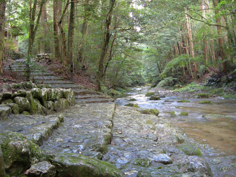 Mitarashi of the Betsugu Takihara-no-miya Sanctuary of Kotaijingu (Naiku) in Taiki, Mie Prefecture, Japan.